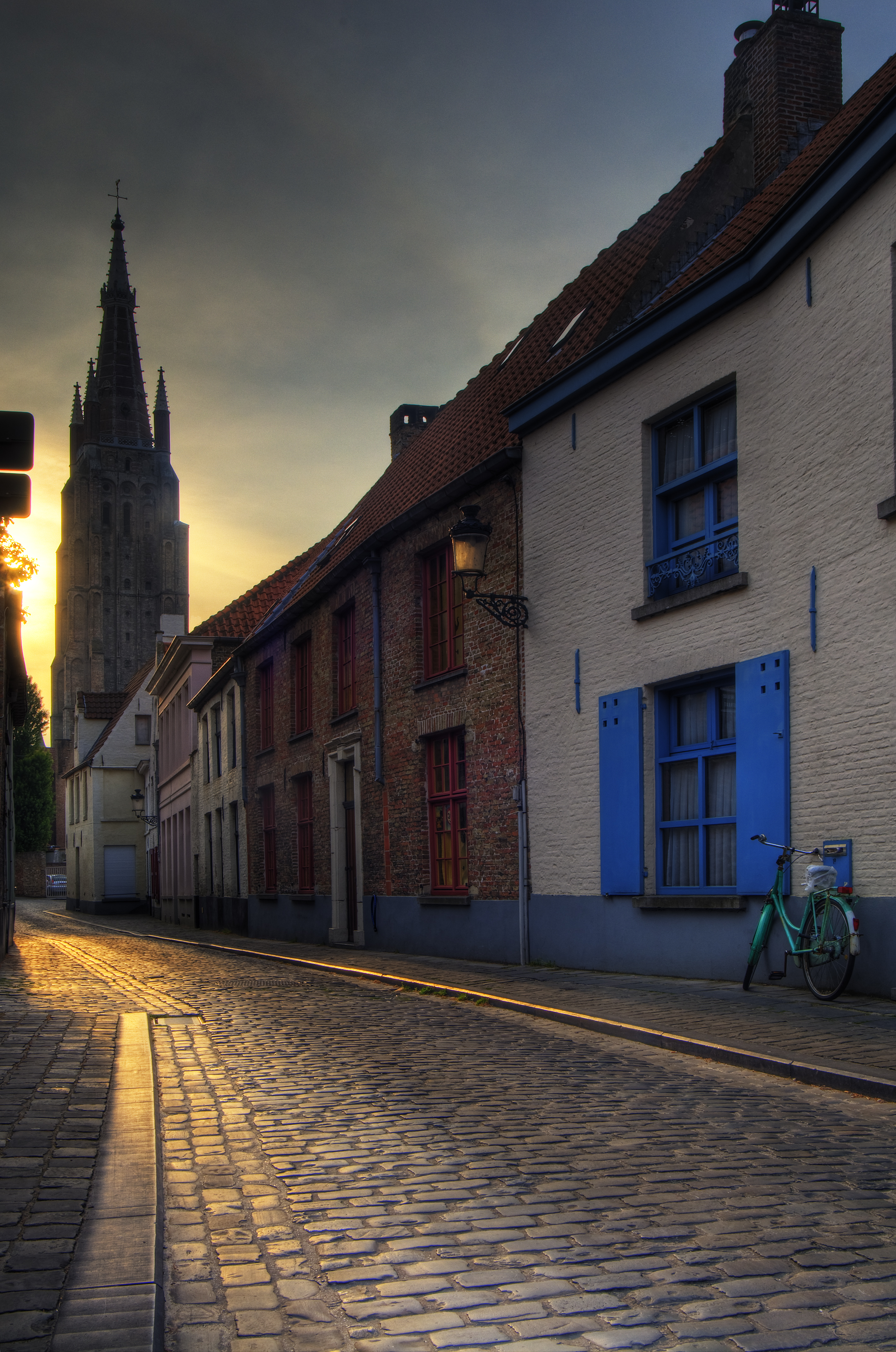 A road in Bruges, the capital and largest city of the province of West Flanders in the Flemish Region of Belgium.